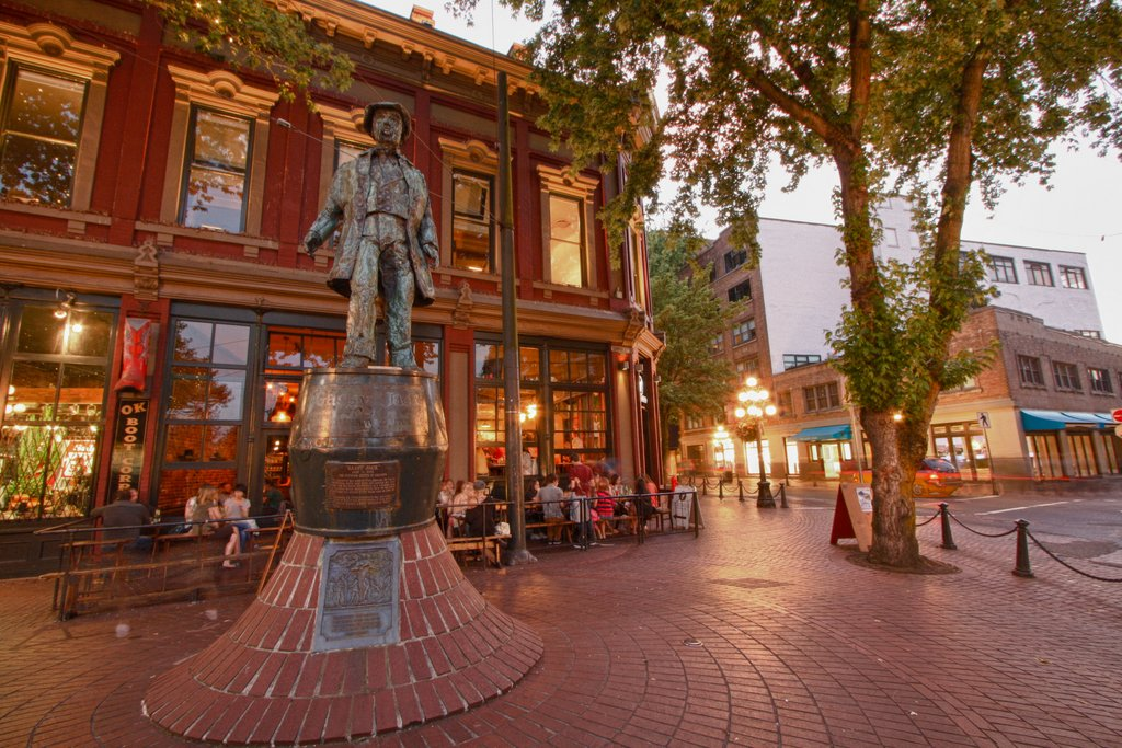 Gassy Jack Statue in Vancouver's historic Gastown District